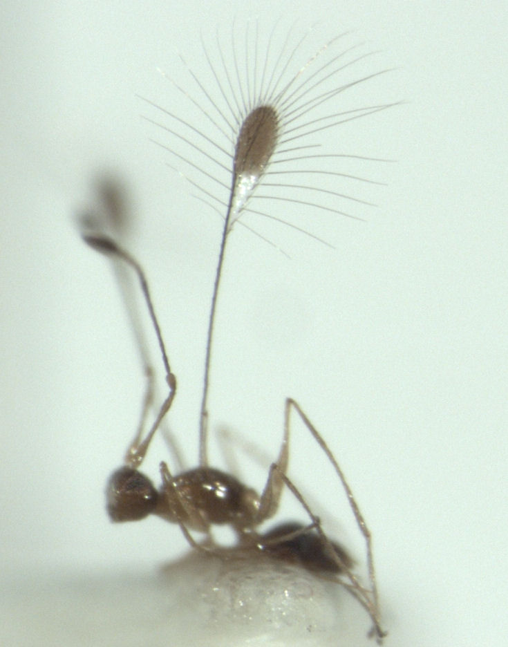 adult female Mymar sp. from New Zealand